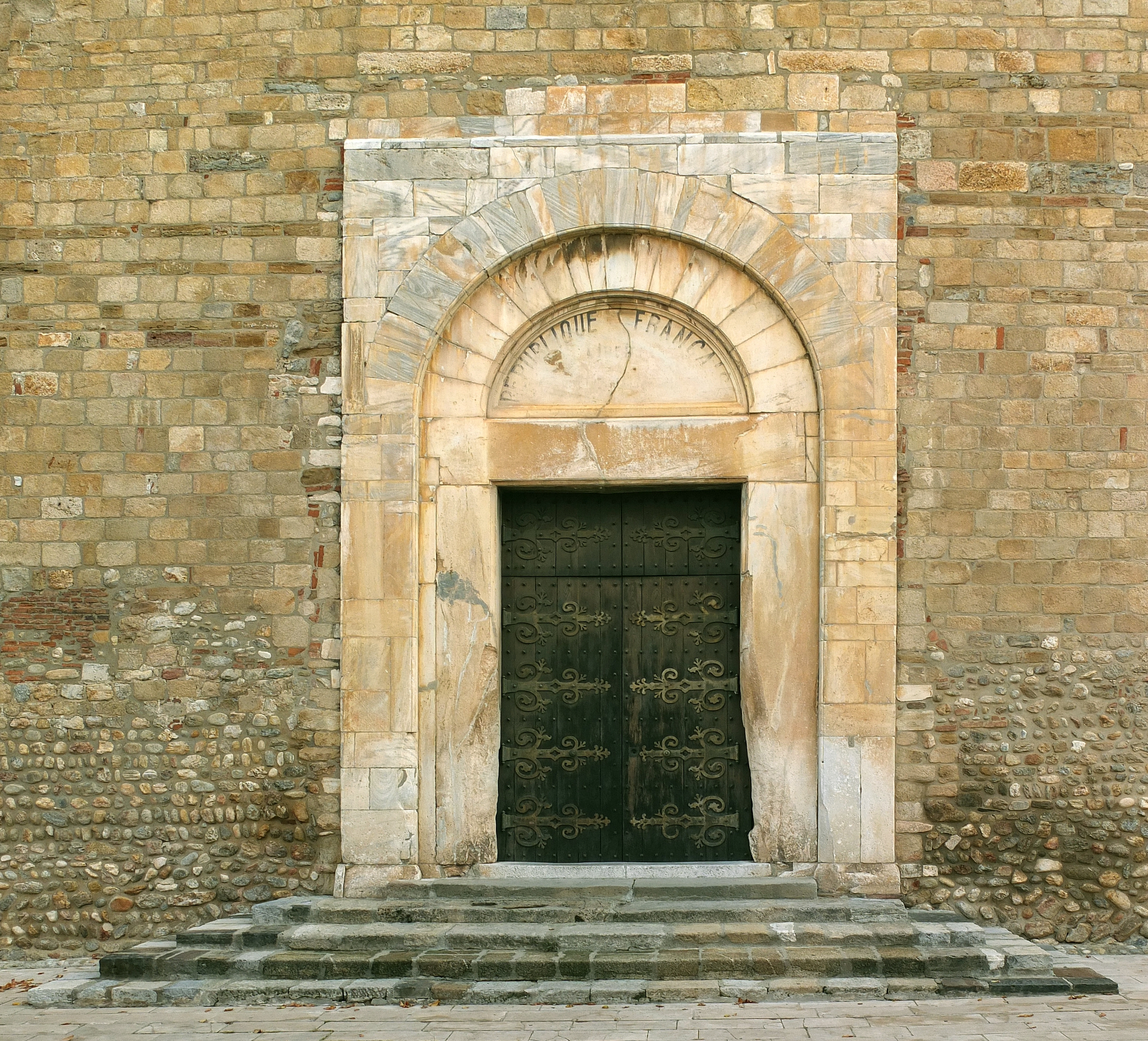 Elne, France: Cathédrale Sainte-Eulalie-et-Sainte-Julie, main portal (SW)